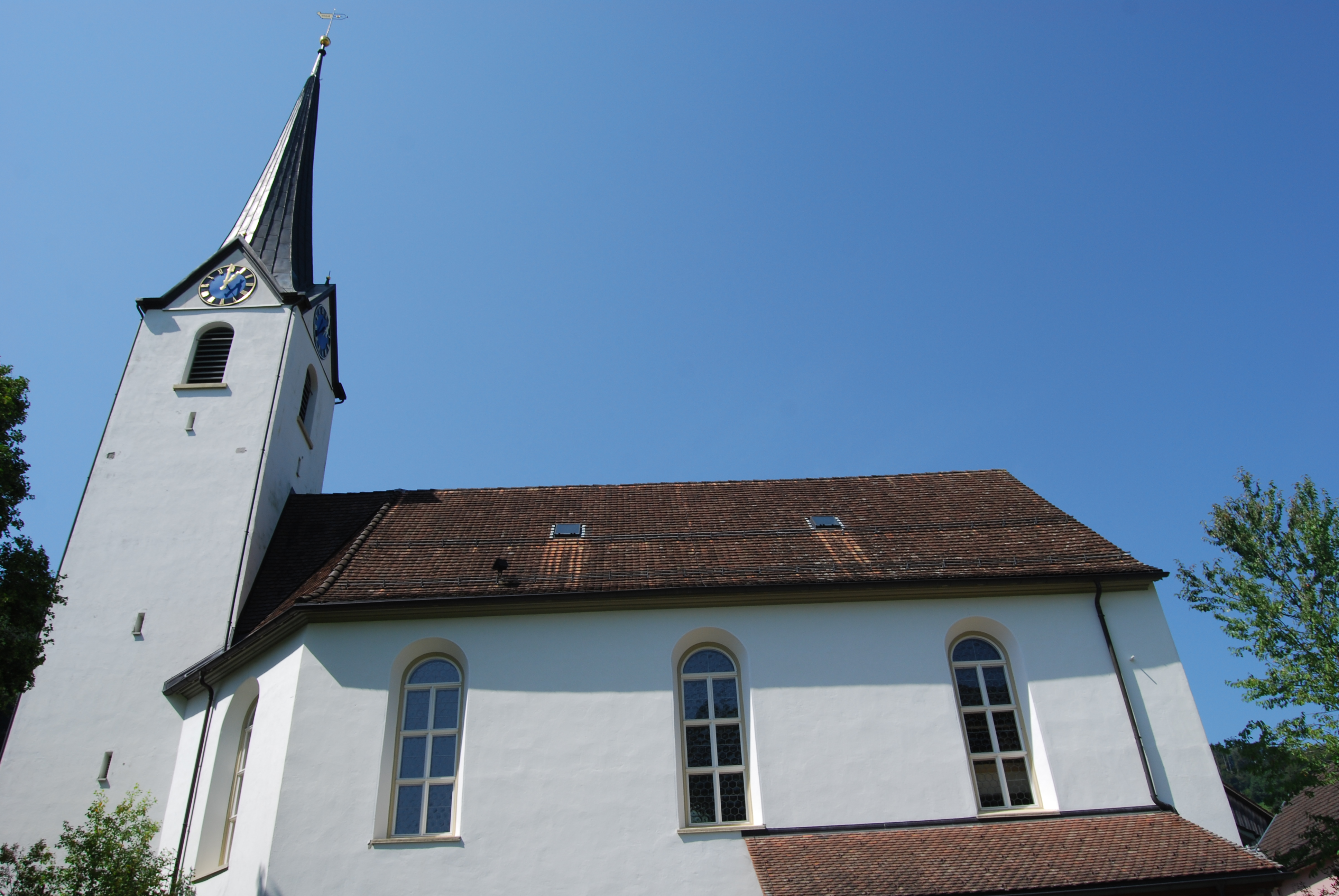 Church of Brunnadern, municipality of Neckertal, canton of St. Gallen, Switzerland